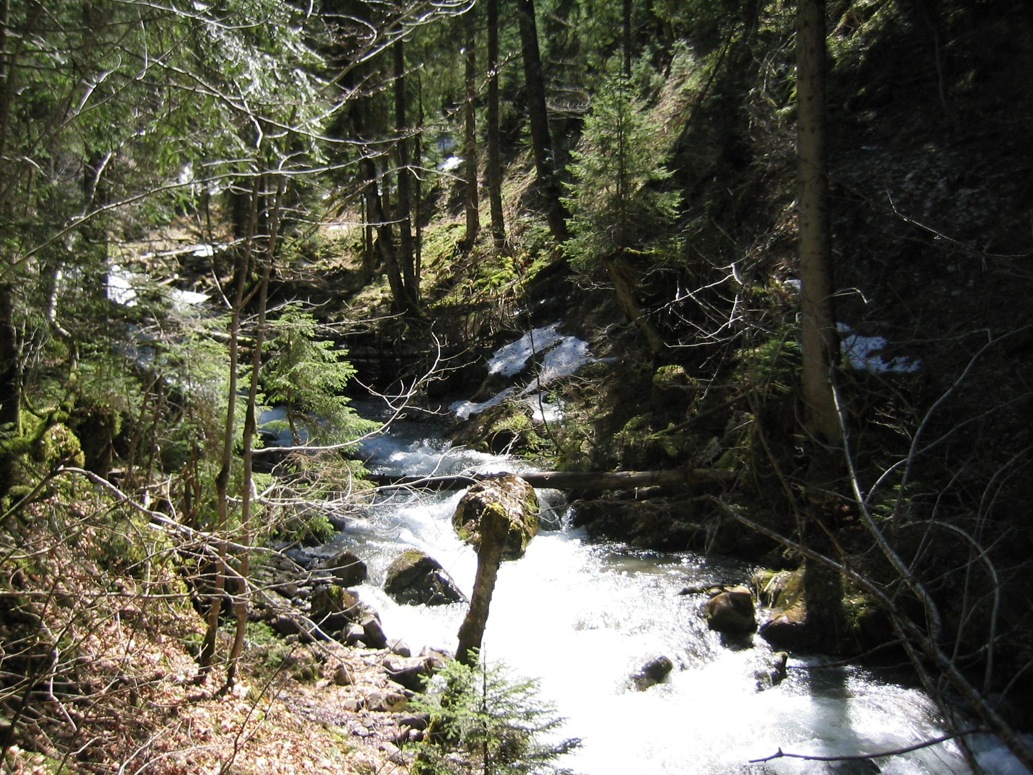 Brevon river (Haute-Savoie, France)